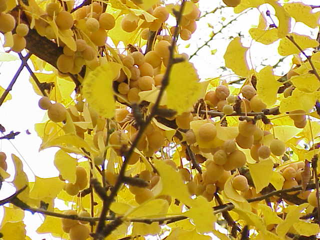 Species: Gingko biloba Family: ' Image No. 4